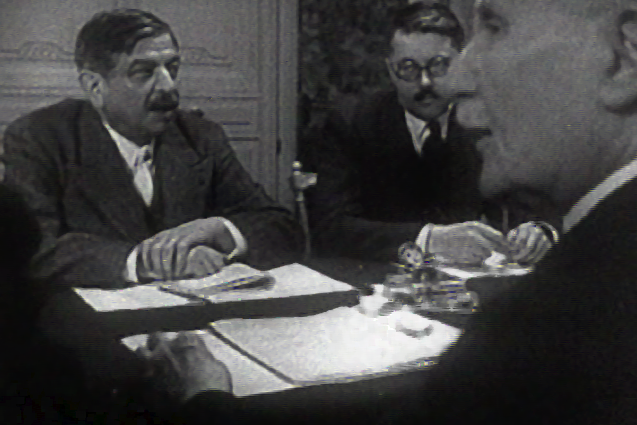 The axis collaborators Philippe Pétain, Pierre Laval and Yves Bouthillier, from the film Divide and Conquer (the film is in the Public Domain)